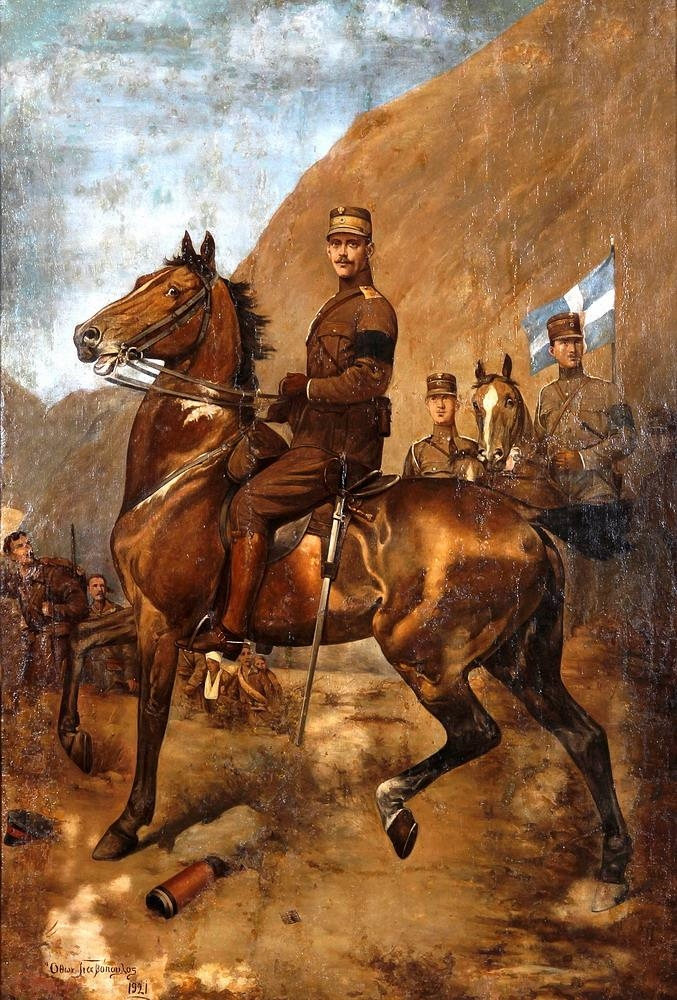 Equestrian Portrait of King Constantine I of Greece. By Othon Yiavopoulos, 1921. Oil on canvas - 120 x 78 cm.